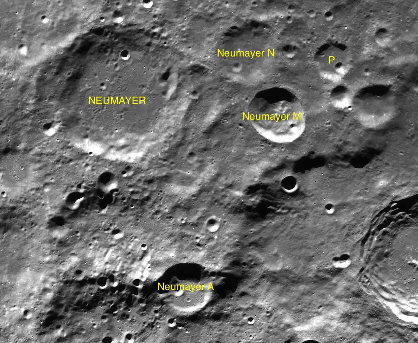 Part of the chart LAC-139 used for the presentation